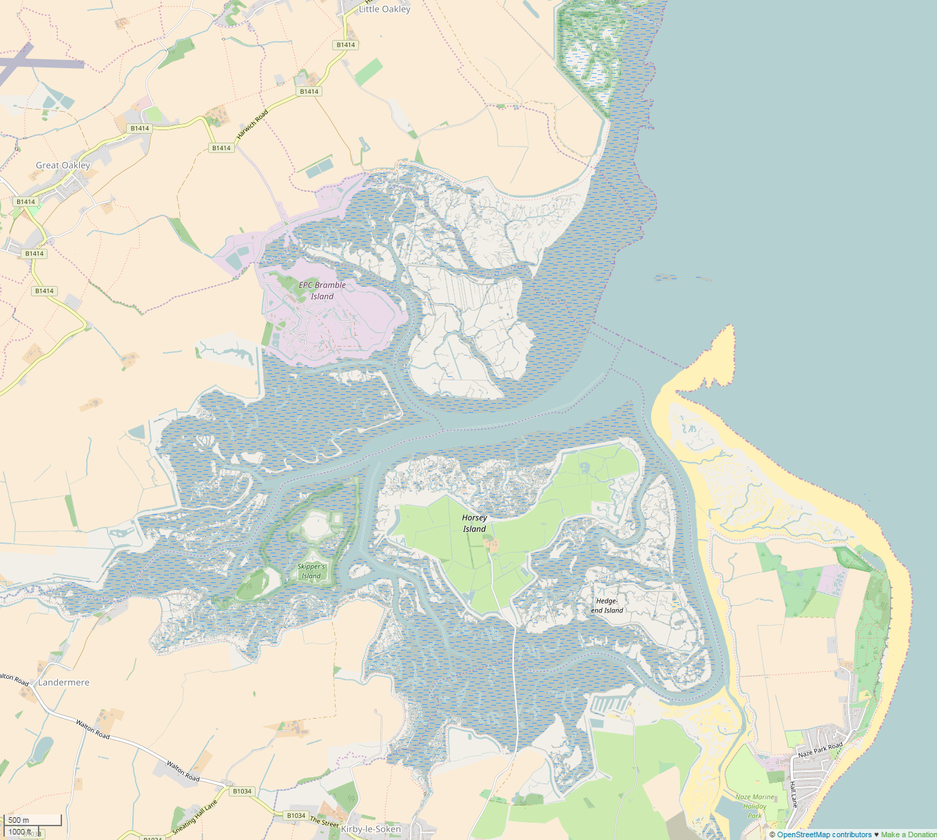 Map of Hamford Water This map of Hamford Water was created from OpenStreetMap project data, collected by the community. This map may be incomplete, and may contain errors. Don't rely solely on it for navigation.